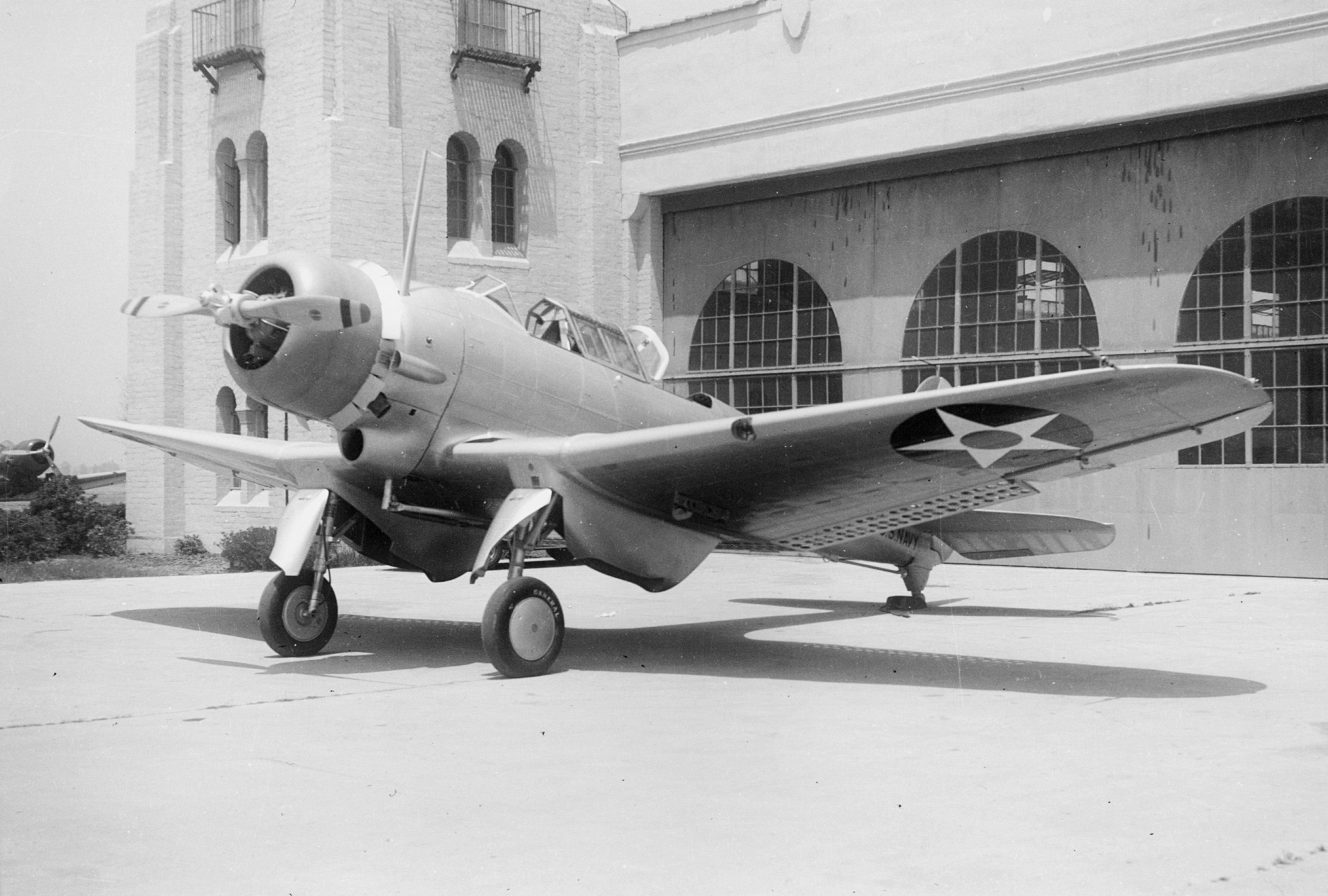 A U.S. Navy Northrop BT-1 pictured sitting on flight line outside of a hangar at El Segundo, California (USA).